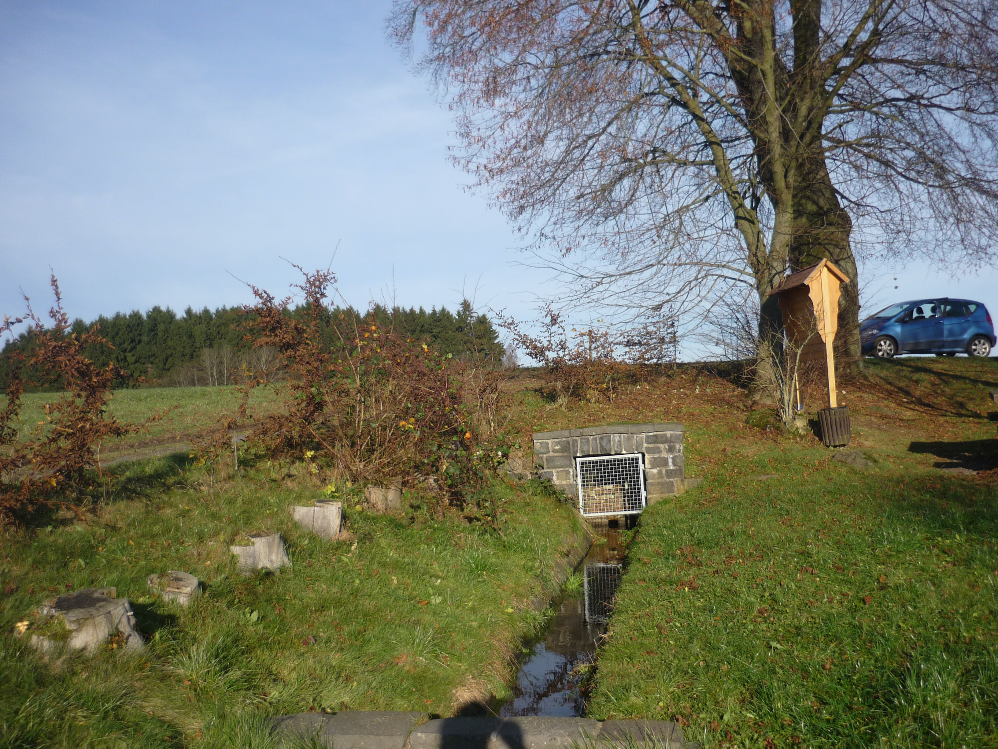 fountain of river wied near linden westerwald